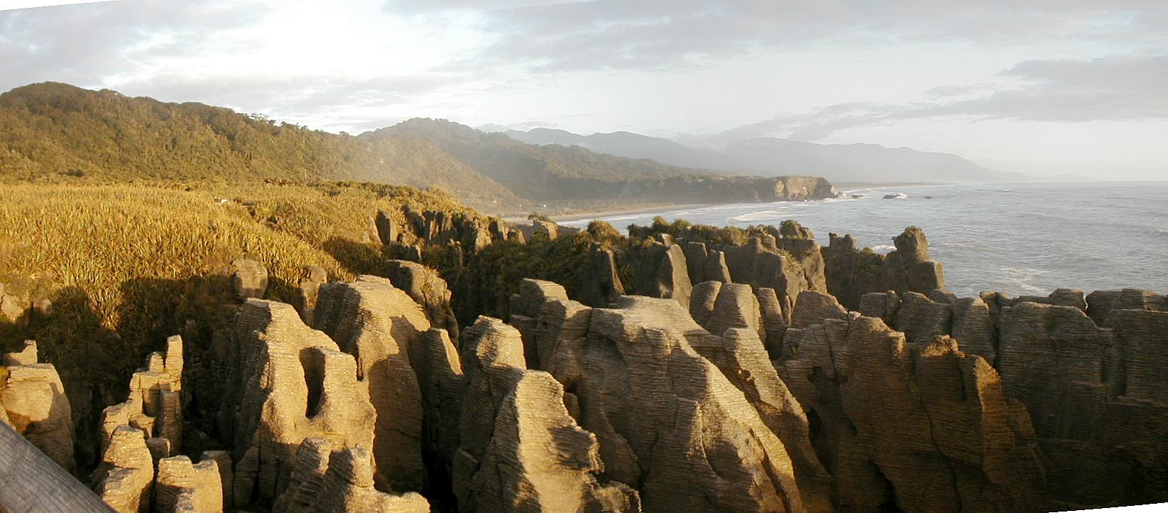 The Pancake rocks at Punakaiki, on the West Coast of the South Island of New Zealand.